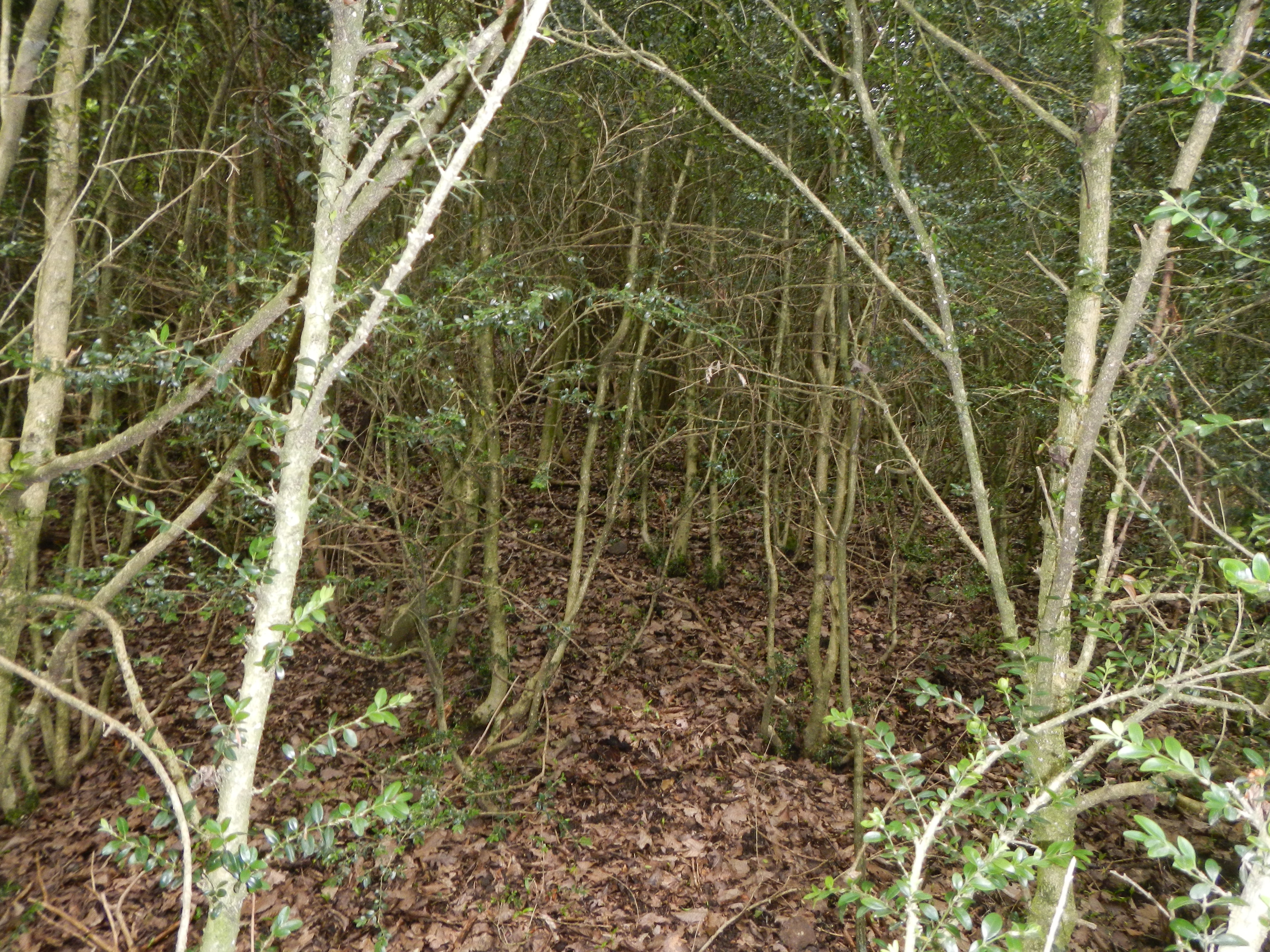 The Buxus forest named Palmbësch near Rettel (Moselle, Lorraine, France.